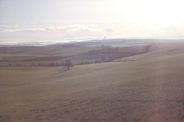 The dip of the Dorset Downs, looking south, taken by User:Steinsky's dad.